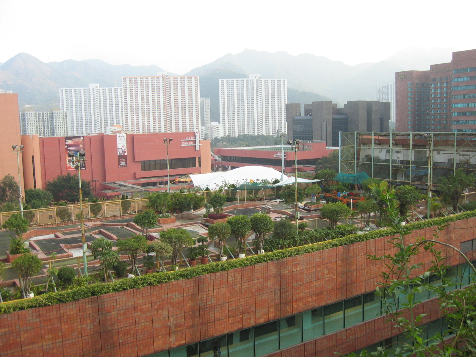 New Town Plaza Golf Course